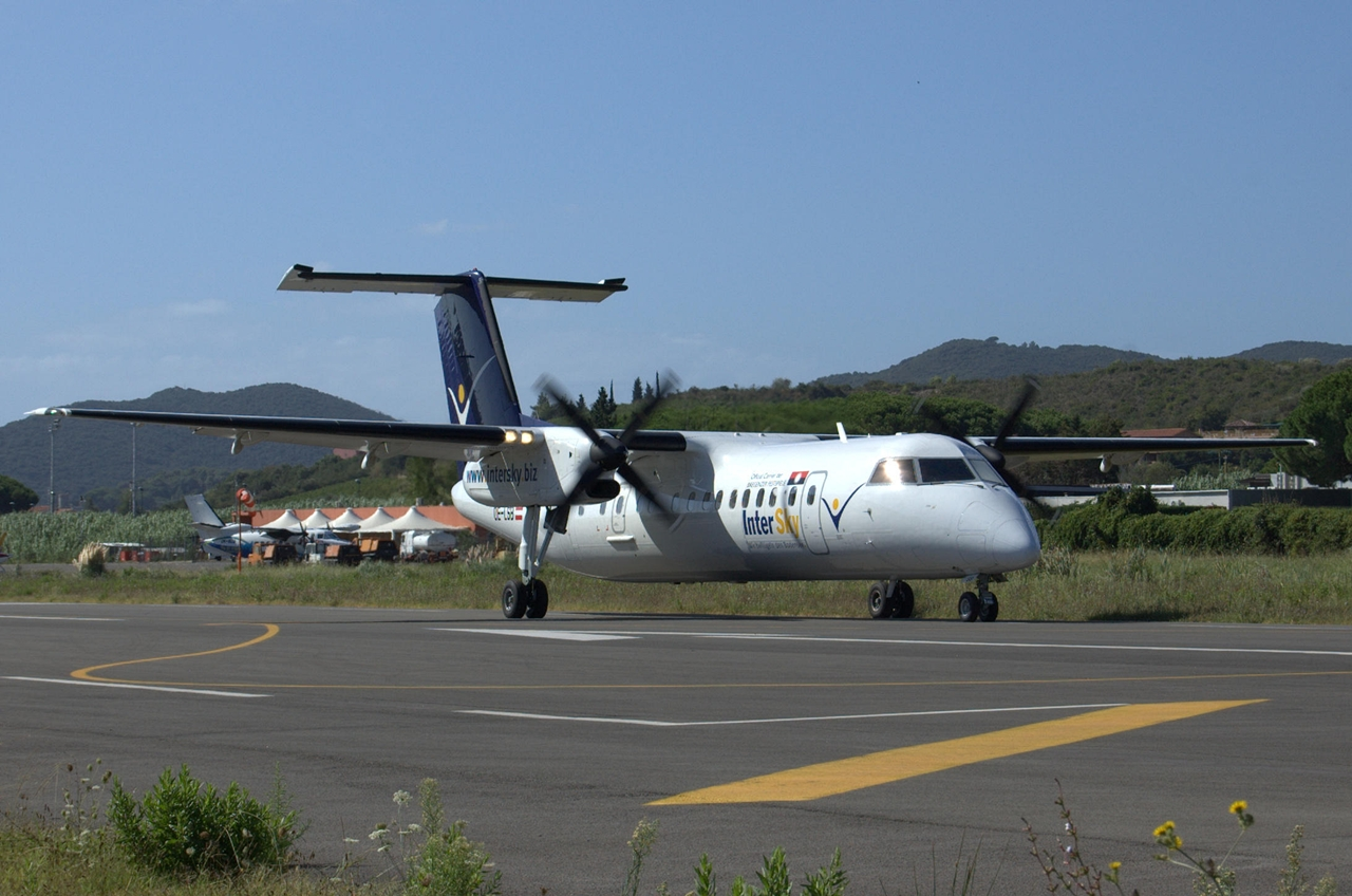 Intersky on the island Elba